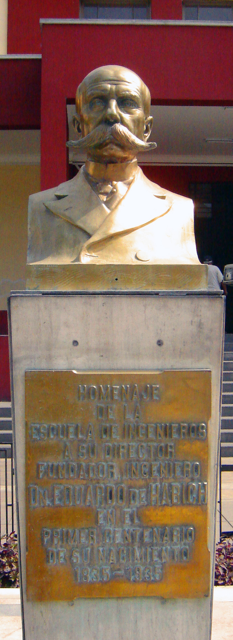 Bust depicting Polish engineer Edward Jan Habich at the National University of Engineering in Lima, Peru